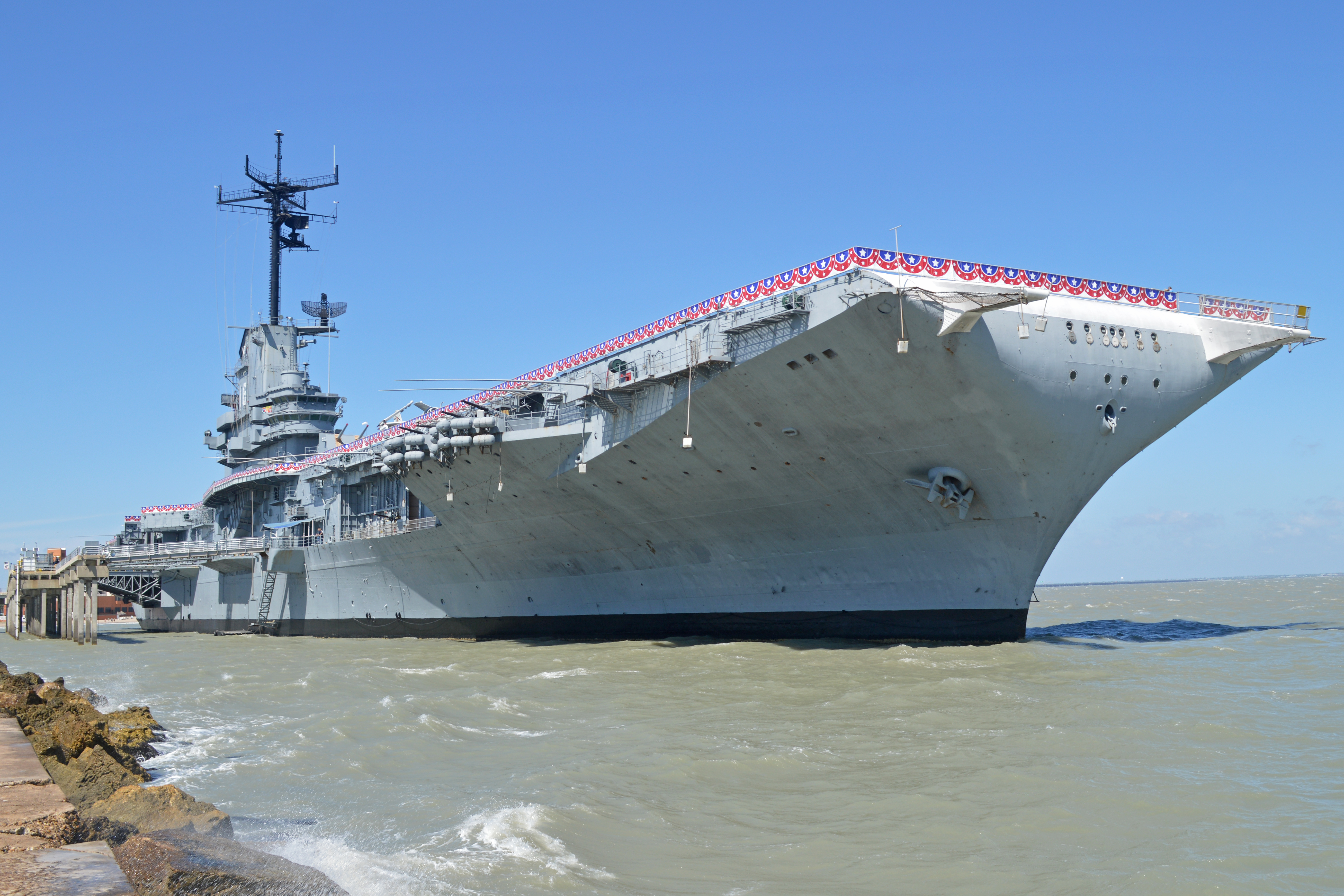 USS LEXINGTON Museum On The Bay